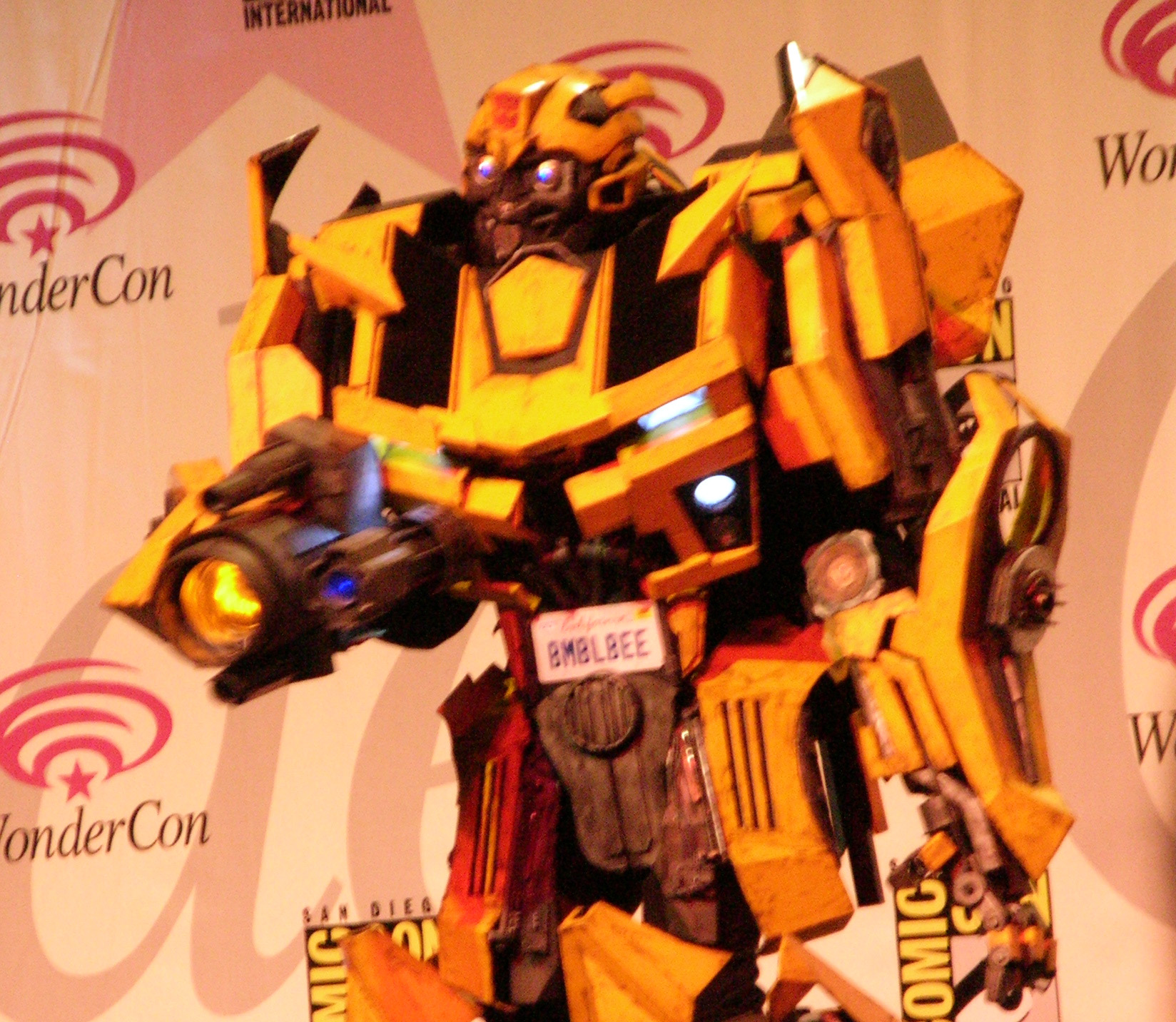 A cosplayer portraying Bumblebee from the live action film versions of Transformers at the WonderCon 2010 Masquerade.